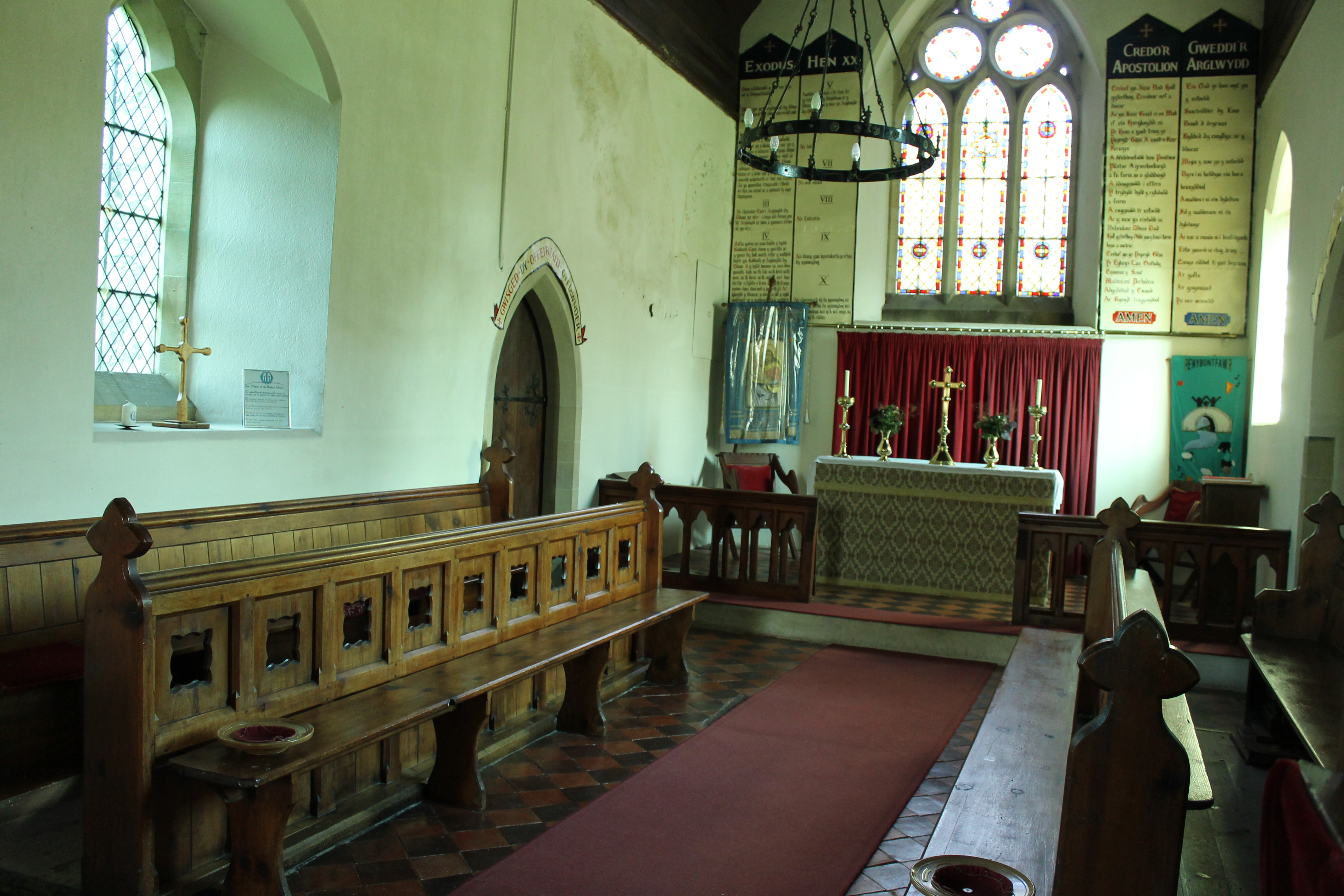 St. Thomas Church Penybontfawr, Powys. Built 1855. Grade II listed building.